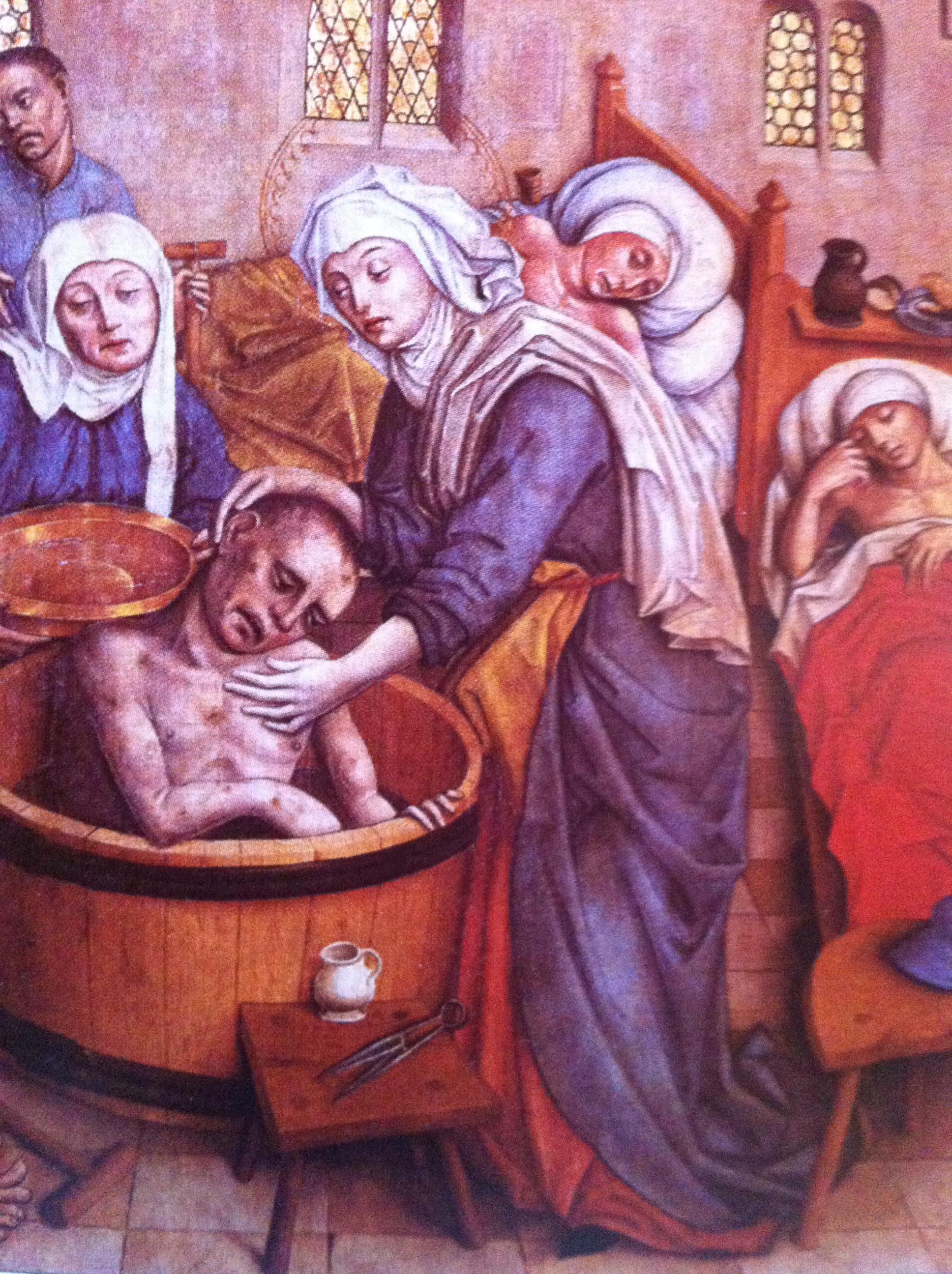 St Elisabeht washing a beggar, a scene from the main altar of St Elisabeth Cathedral in Košice, Slovakia, 2nd half of the 15th century